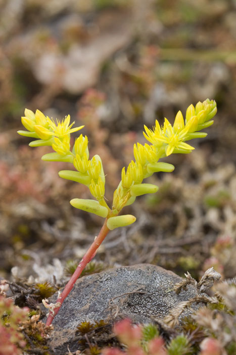 Sedella pumila (syn. Parvisedum pumilum), 5-6 cm tall, but it colored large areas yellow on the top of Table Mountain, Butte Co., CA